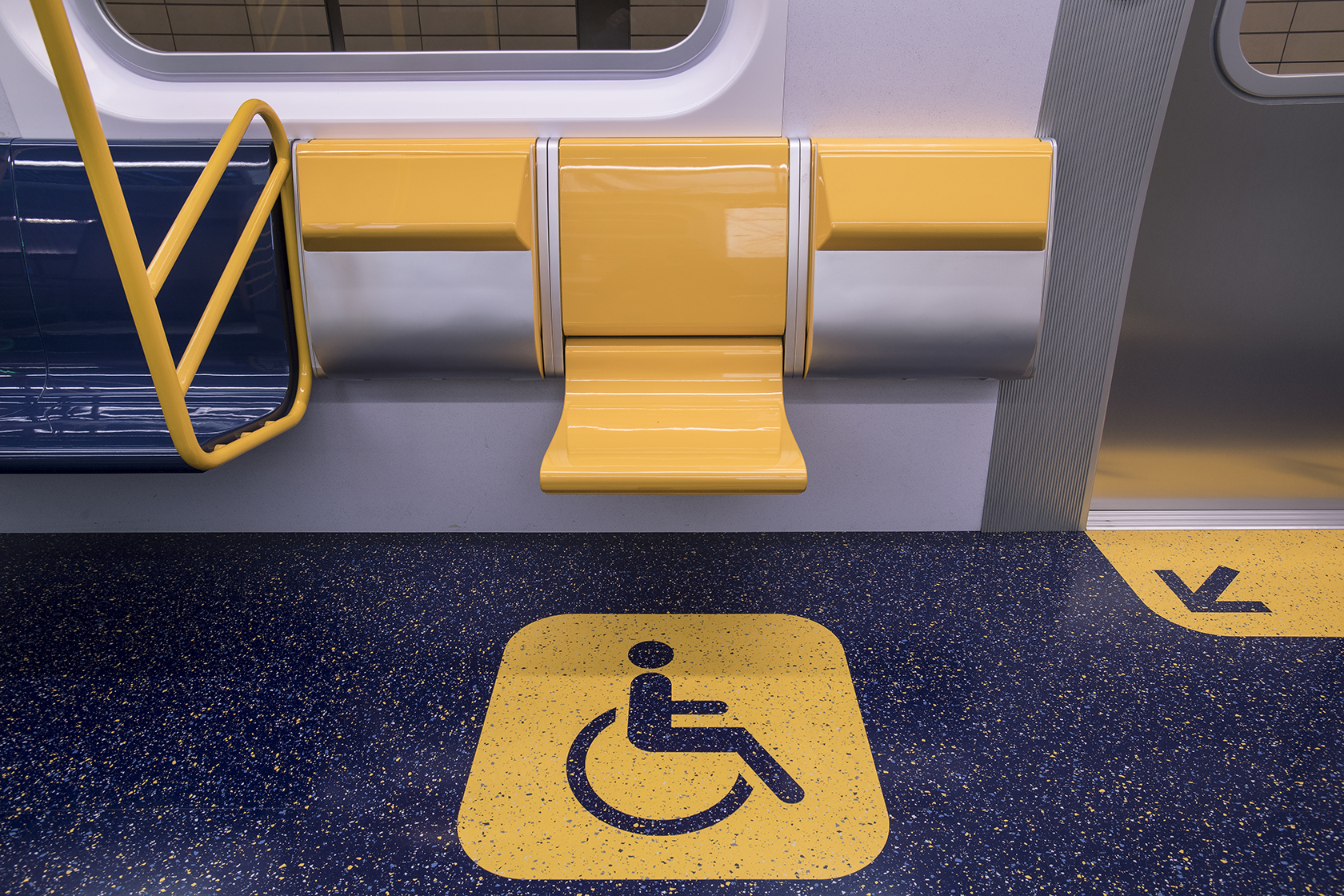 Customers had the opportunity to see the new car design and its features up close at the 7 line subway station mezzanine at 34 Street-Hudson Yards. Photo Credit: Metropolitan Transportation Authority / Patrick Cashin.